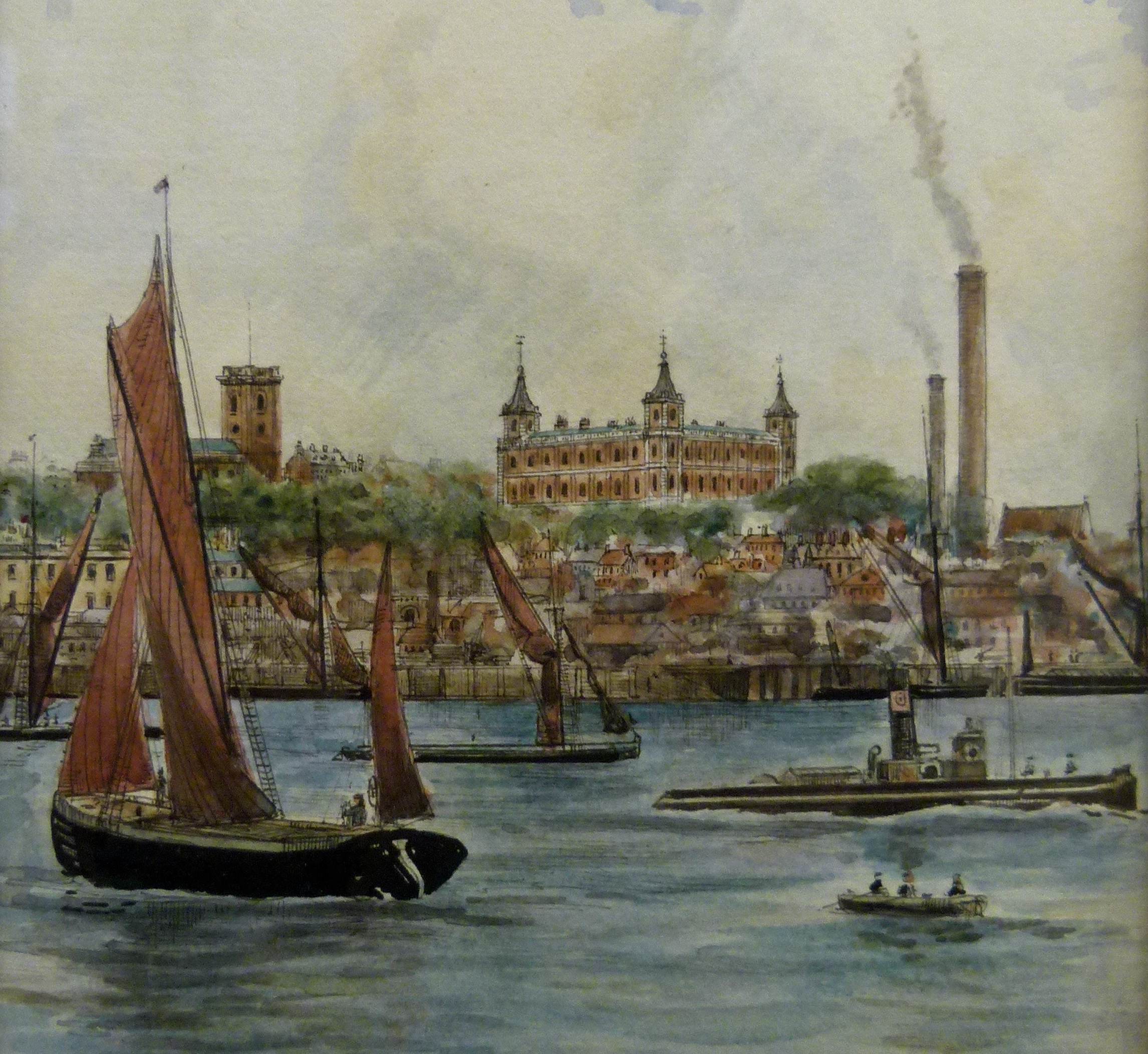 A view of Woolwich (with Red Barracks) from the Thames, watercolour by Llwyd Roberts (1929). Part of a semi-permanent exhibition dedicated to the Royal Artillery and Royal Military Academy in Greenwich Heritage Centre, Woolwich, south east London, UK.